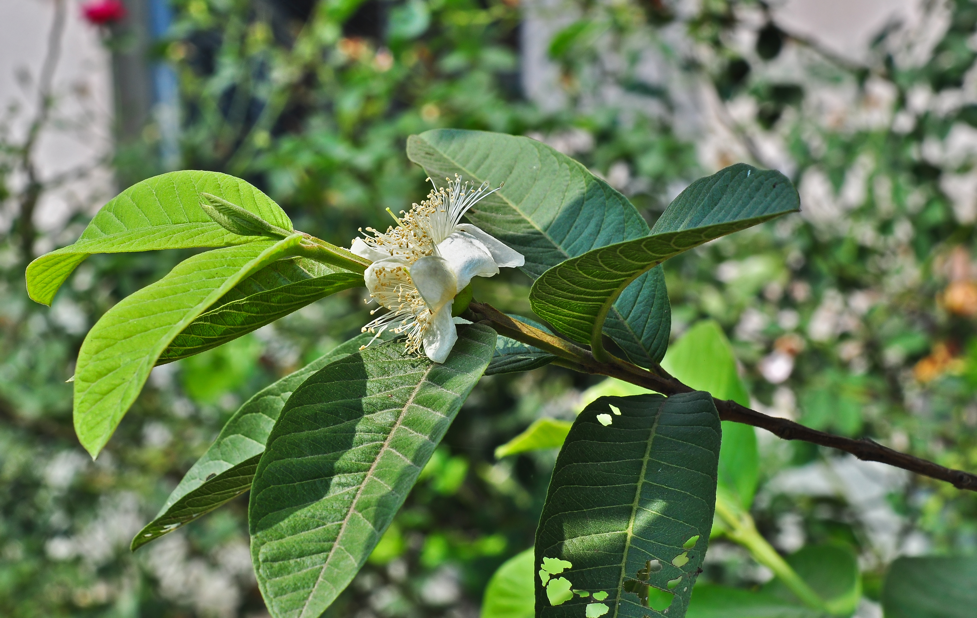 Flower of common guava (Psidium guajava). Taken at Burdwan, West Bengal, India.